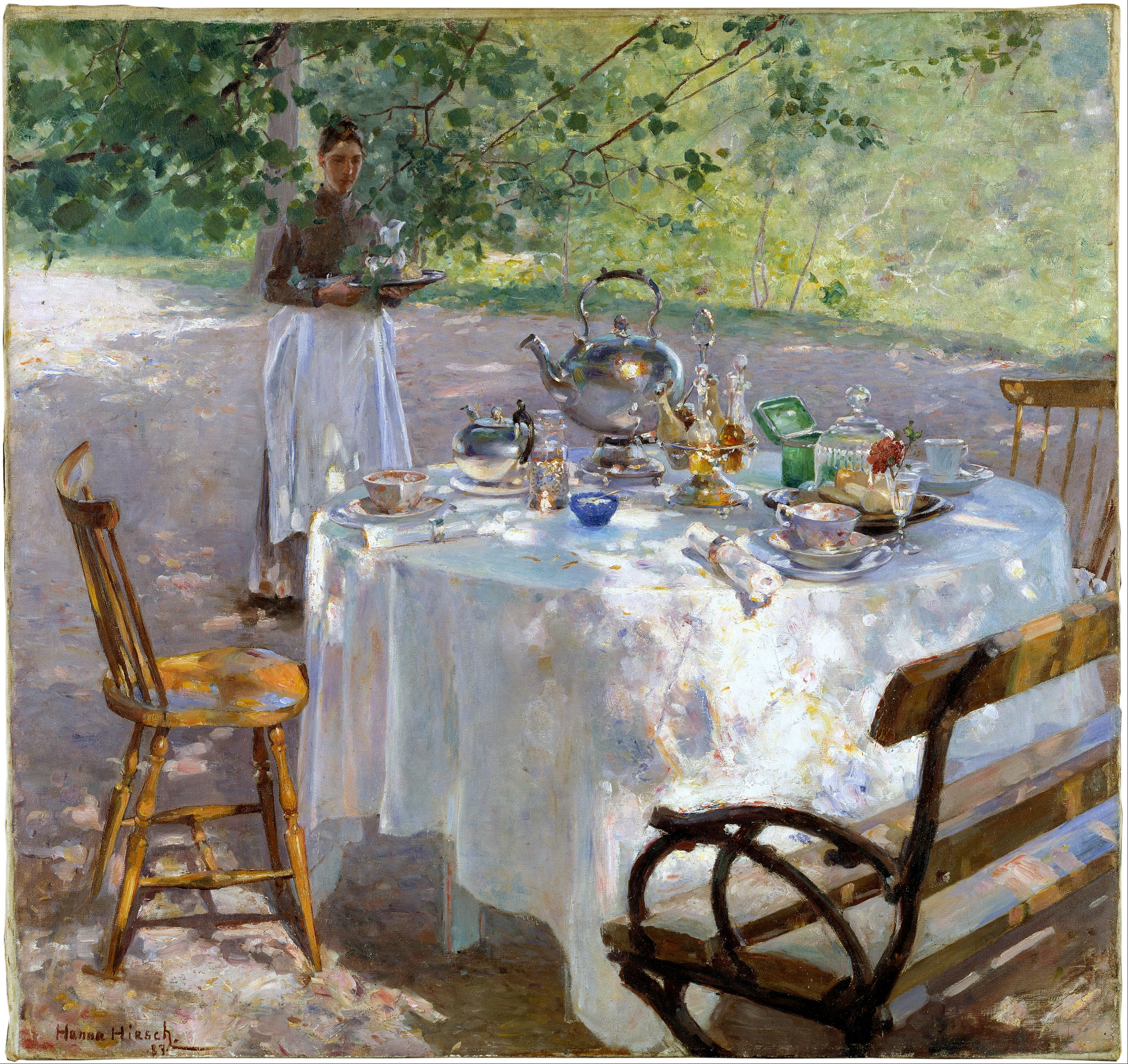 Nationalmuseum: To this day, Hanna Hirsch-Pauli’s painting Breakfast Time from 1887 is still able to trigger feelings of intense sensual pleasure from our visitors. “We truly feel invited; it is just like our very own breakfast ritual. The chairs are waiting for us and we can almost feel how the heavy teapot tilts as we lift it.” The table which is laid with beautiful objects gives associations to family life and domesticity. The image shows a corner of reality, where the bourgeois dining room has been removed to the garden. This is an open-air painting suffused with light. The subject is dappled with reflections that give the objects a suggestive shimmer. It is a juste-milieu painting, being at once anchored in the classicist tradition with its linear perspective, but also inspired by the way the Impressionists depicted light with colour. Like many Swedish artists at the time, Hanna Hirsch-Pauli studied in Paris and exhibited at the Salon. The use of light, the lively brushstrokes and the thickly applied paint outraged several Swedish critics at the time. They saw her technique as “slipshod” and one critic meant that the flecks of light on the table cloth were probably the result of the artist “wiping” her own brushes on it. In the late 1880s Breakfast Time played a major role in Hanna Hirsch-Pauli’s breakthrough as an artist. Already an accomplished colourist, as we can see, she went on to develop those skills in her portrait painting.